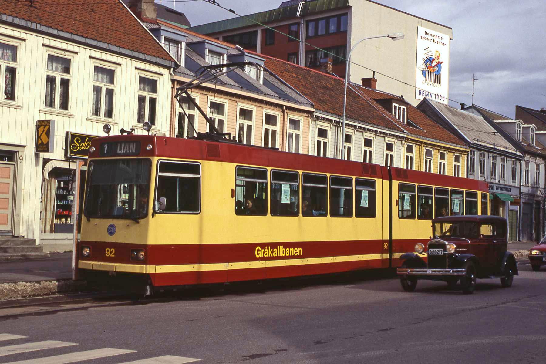 Trondheim tram loop in 1995. There is by coincidence an oldtimer going past.